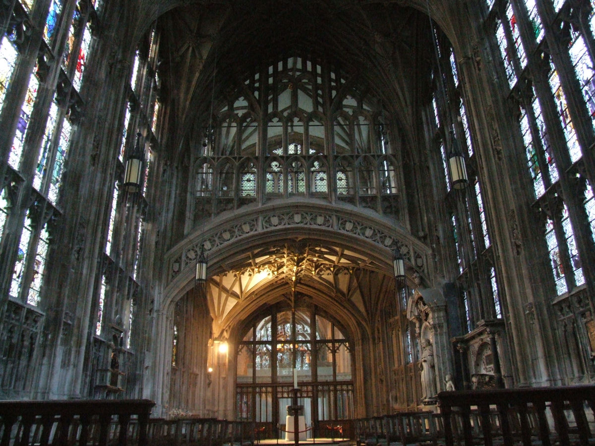 Gloucester cathedral, Gloucester, England - Lady chapel looking toward the choir